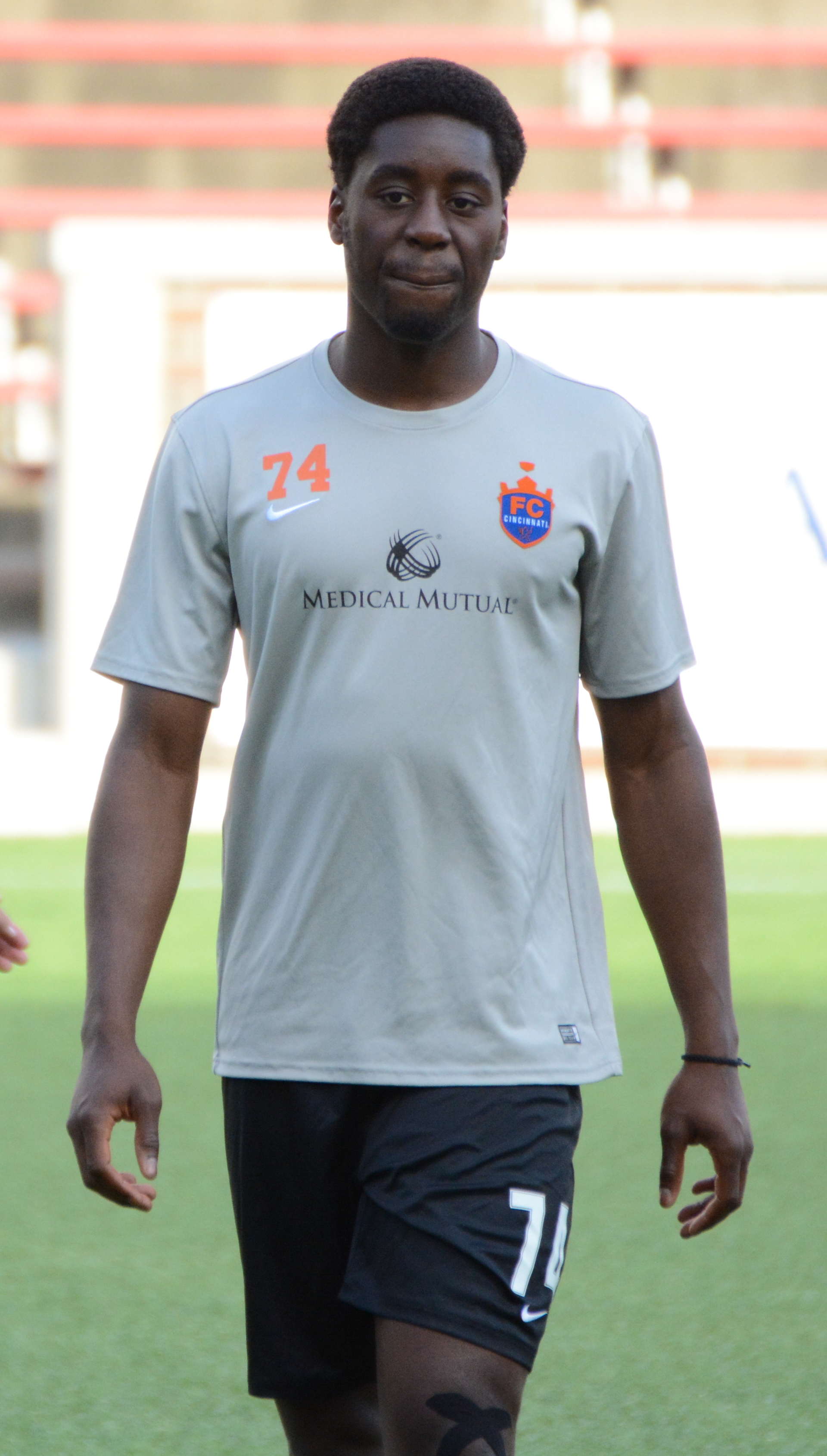 Mélé Temguia warming up with FC Cincinnati. Taken at a Lamar Hunt U.S. Open Cup match between FC Cincinnati and AFC Cleveland at Nippert Stadium in Cincinnati, Ohio on May 17, 2017.